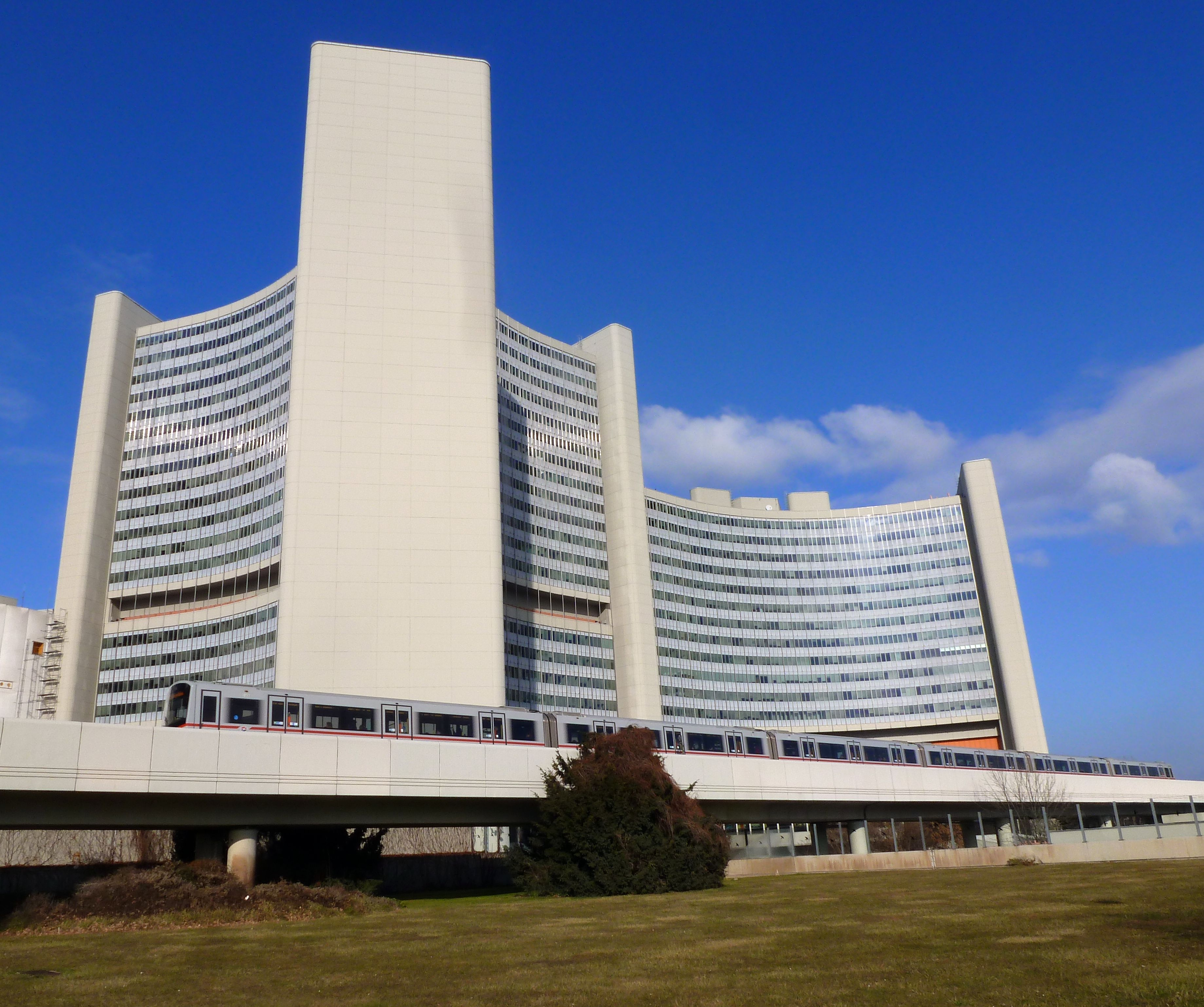 A V-class train of line U1 is passing in front of Vienna International Centre.